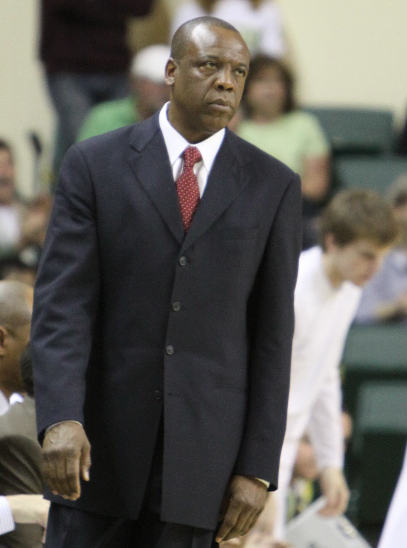 Ernie Kent during a University of Oregon Mens Basketball game at McArthur Court in Eugene, Oregon, on March 4, 2010.